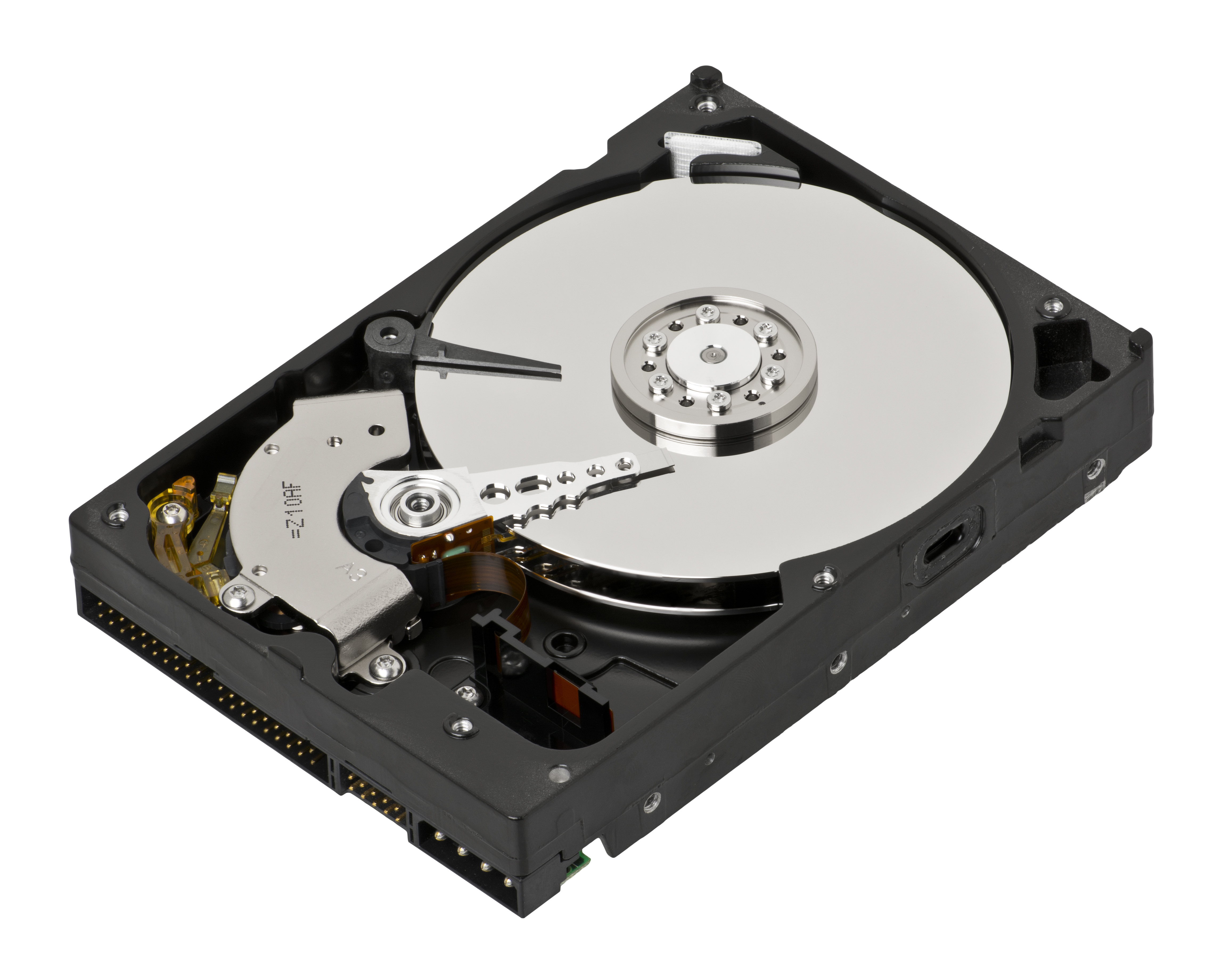 A 3.5" hard disk drive with PATA connections. 3.5" hard disk drives are commonly used in desktop computers and can store terabytes worth of information.